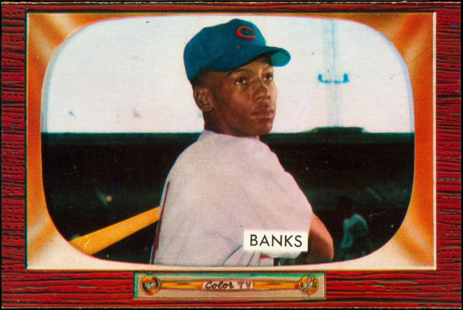 1955 Bowman baseball card of Ernie Banks of the Chicago Cubs. PD-not-renewed.